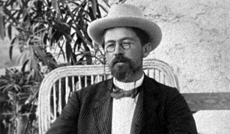 Chekhov